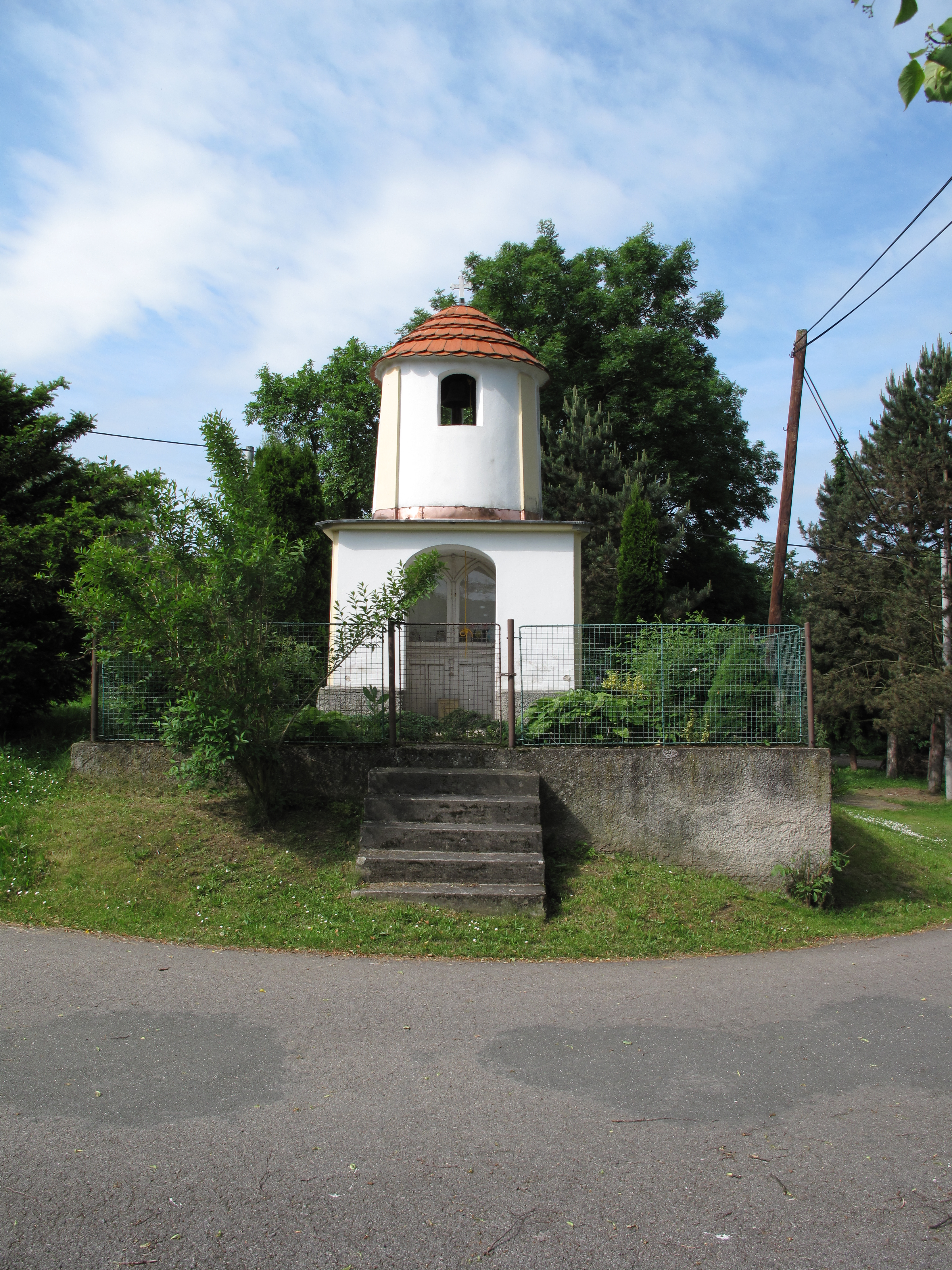 Village chapel in Tisem village, Benešov District, Czech Republic.